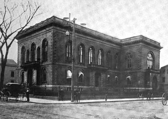 Public library, Massachusetts